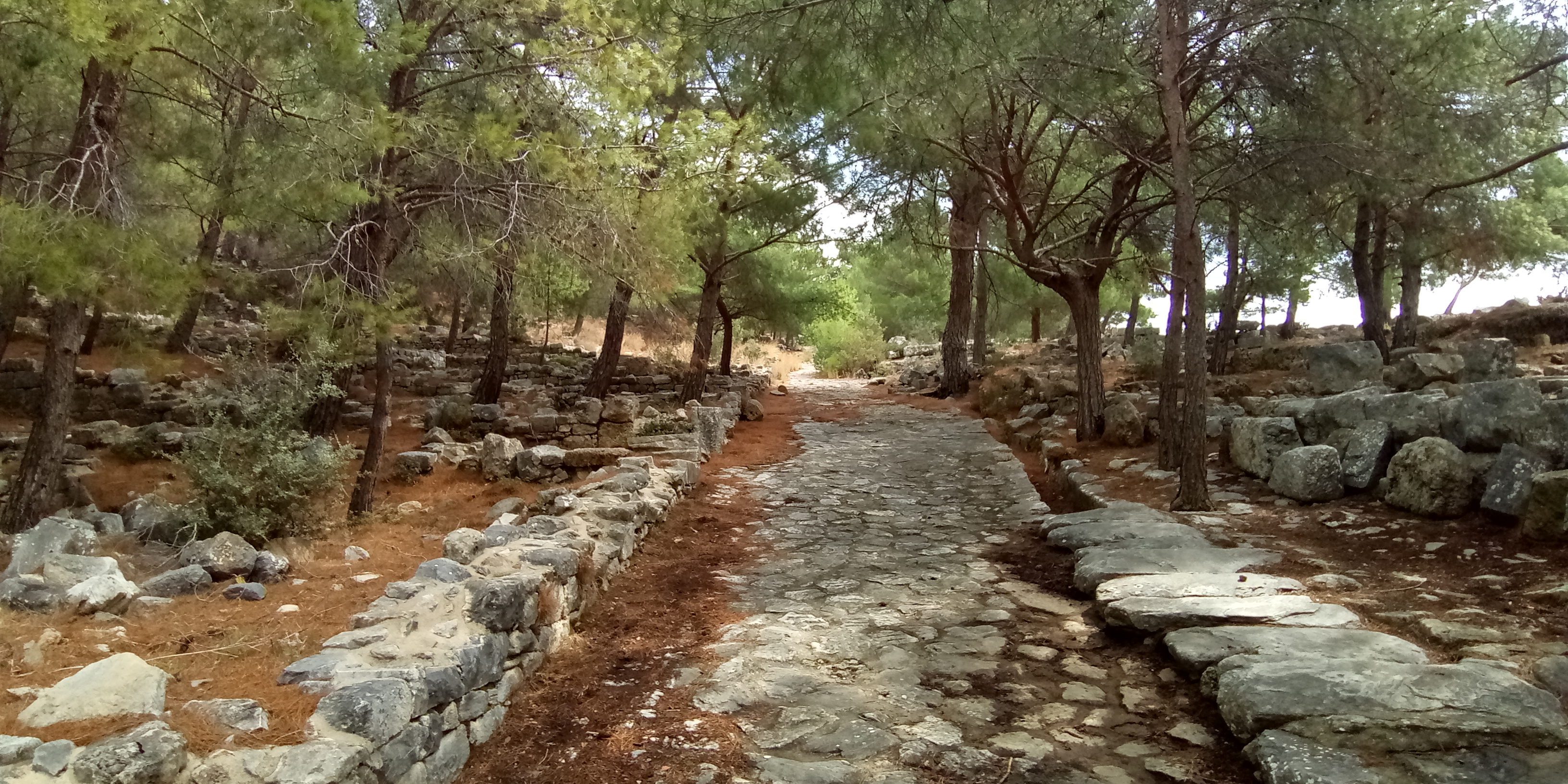 West Gate Street, Priene, looking east